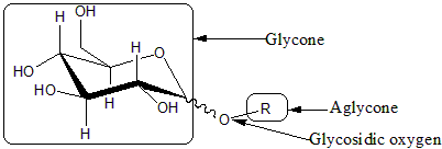 Glycoside